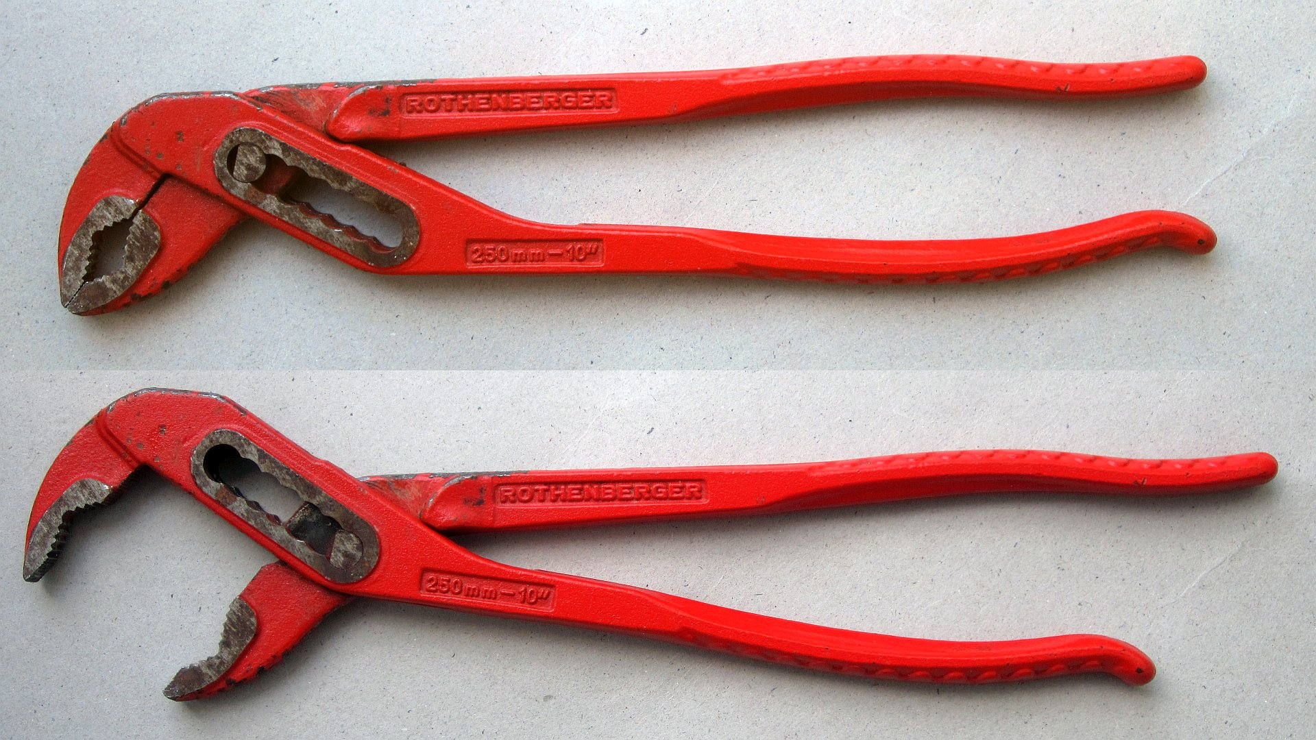 tongue-and-groove pliers by Rothenberger